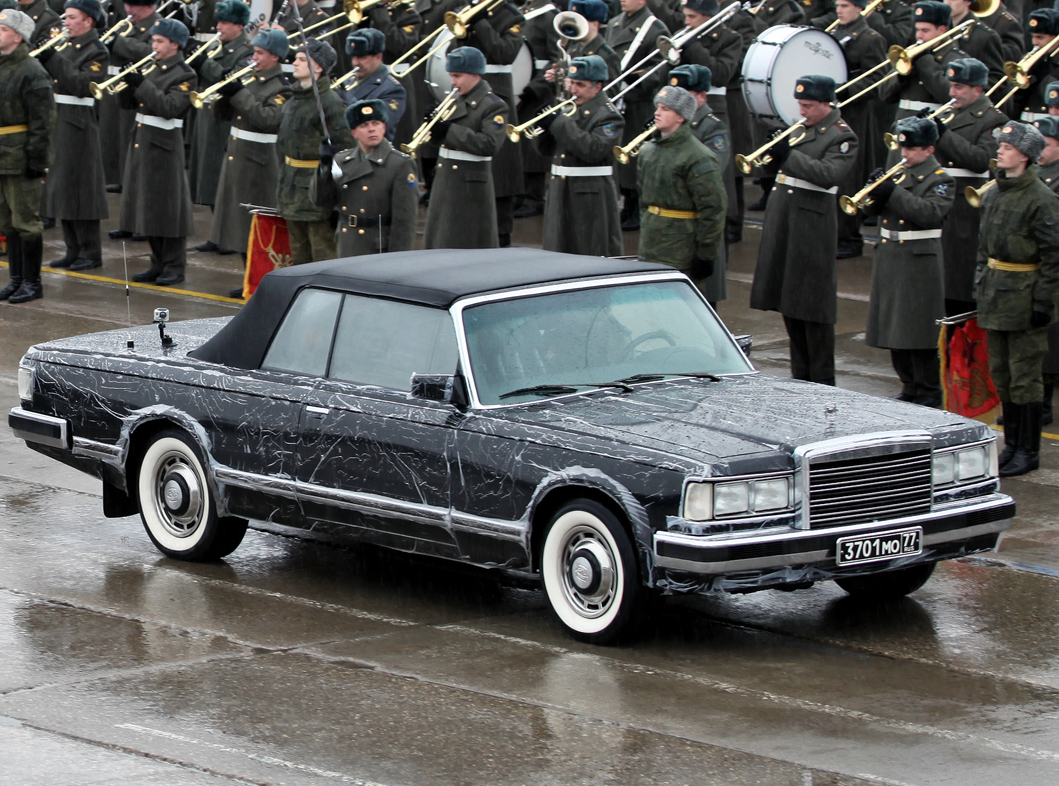 Rehearsal of Victory Day Parade